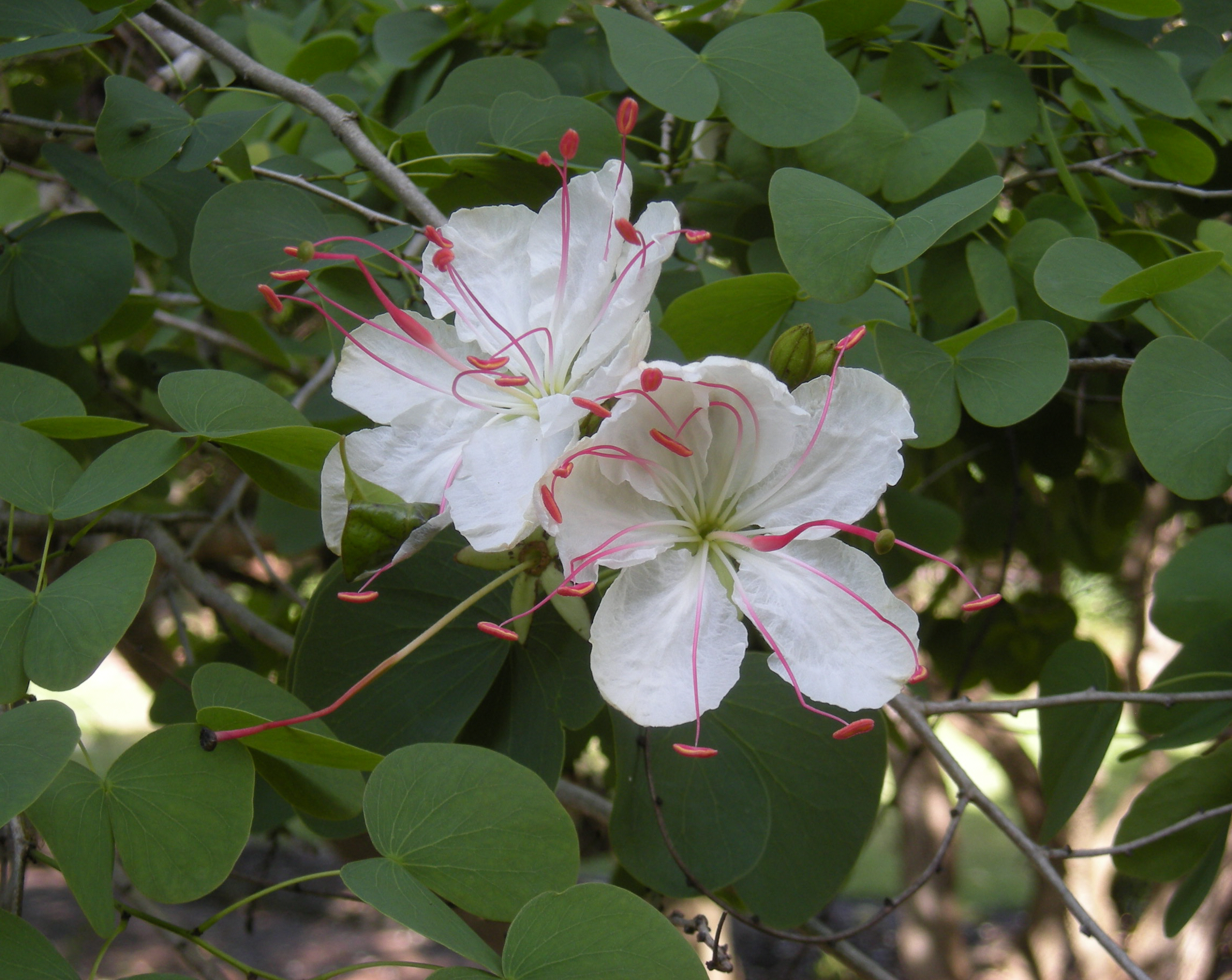 Lysiphyllum hookeri flowers and foliage. Mount Archer National Park, Rockhampton